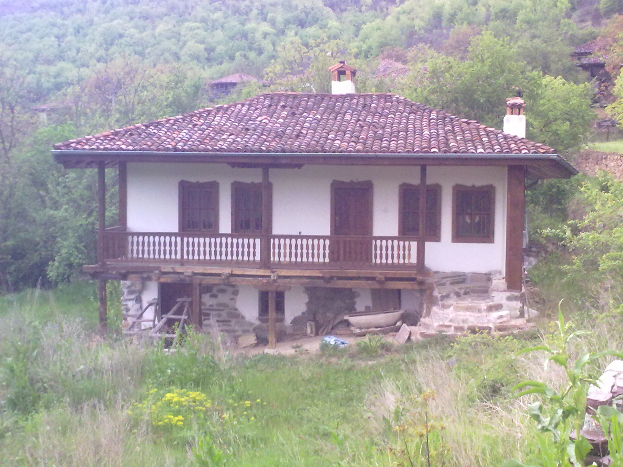 One of the wonderful medieval style houses located in the village Srebrinovo, Pazardjik, Bulgaria